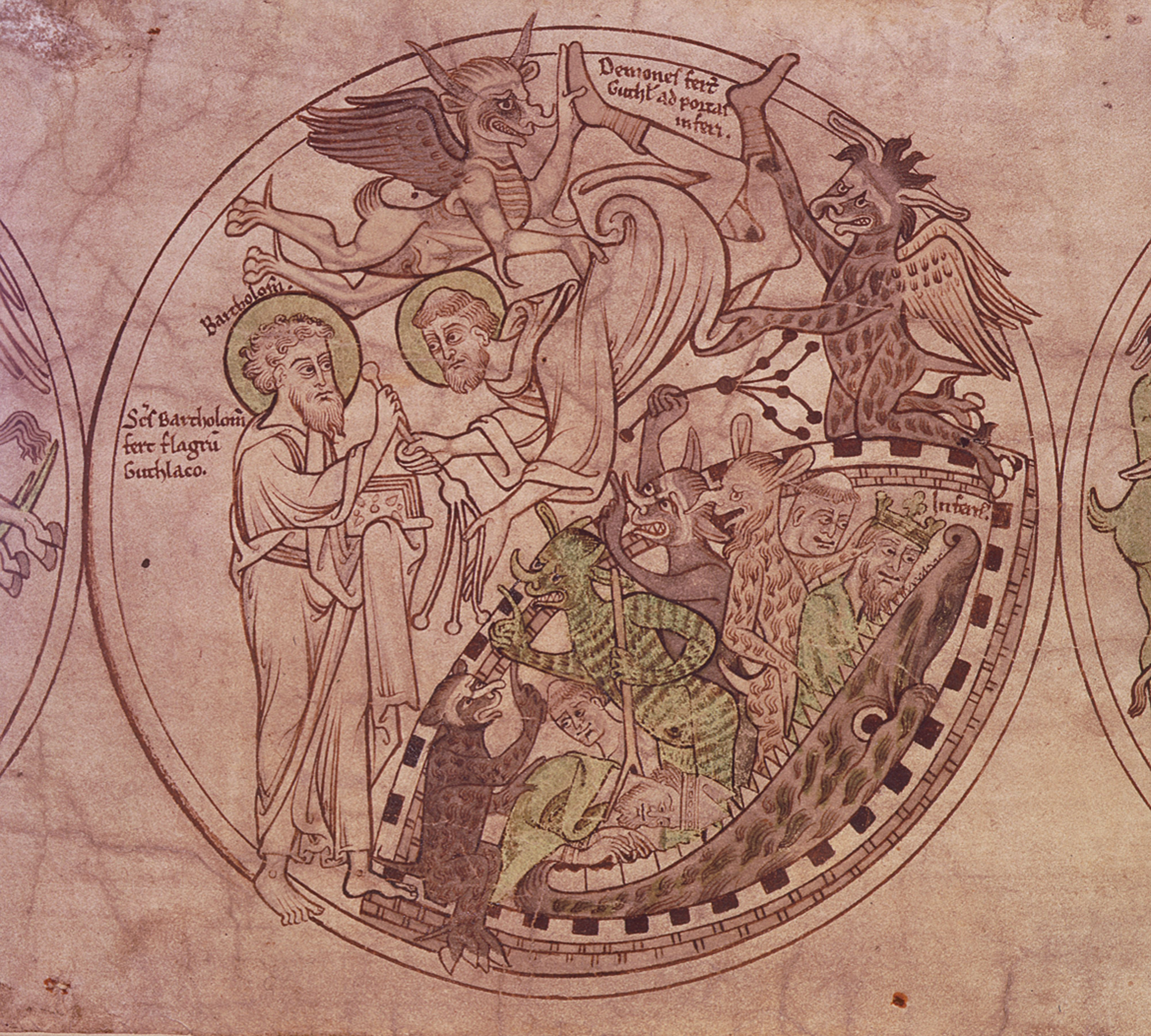 St Guthlac is presented with a whip by St Bartholomew as he is tormented by demons, illustration from The Guthlac Roll